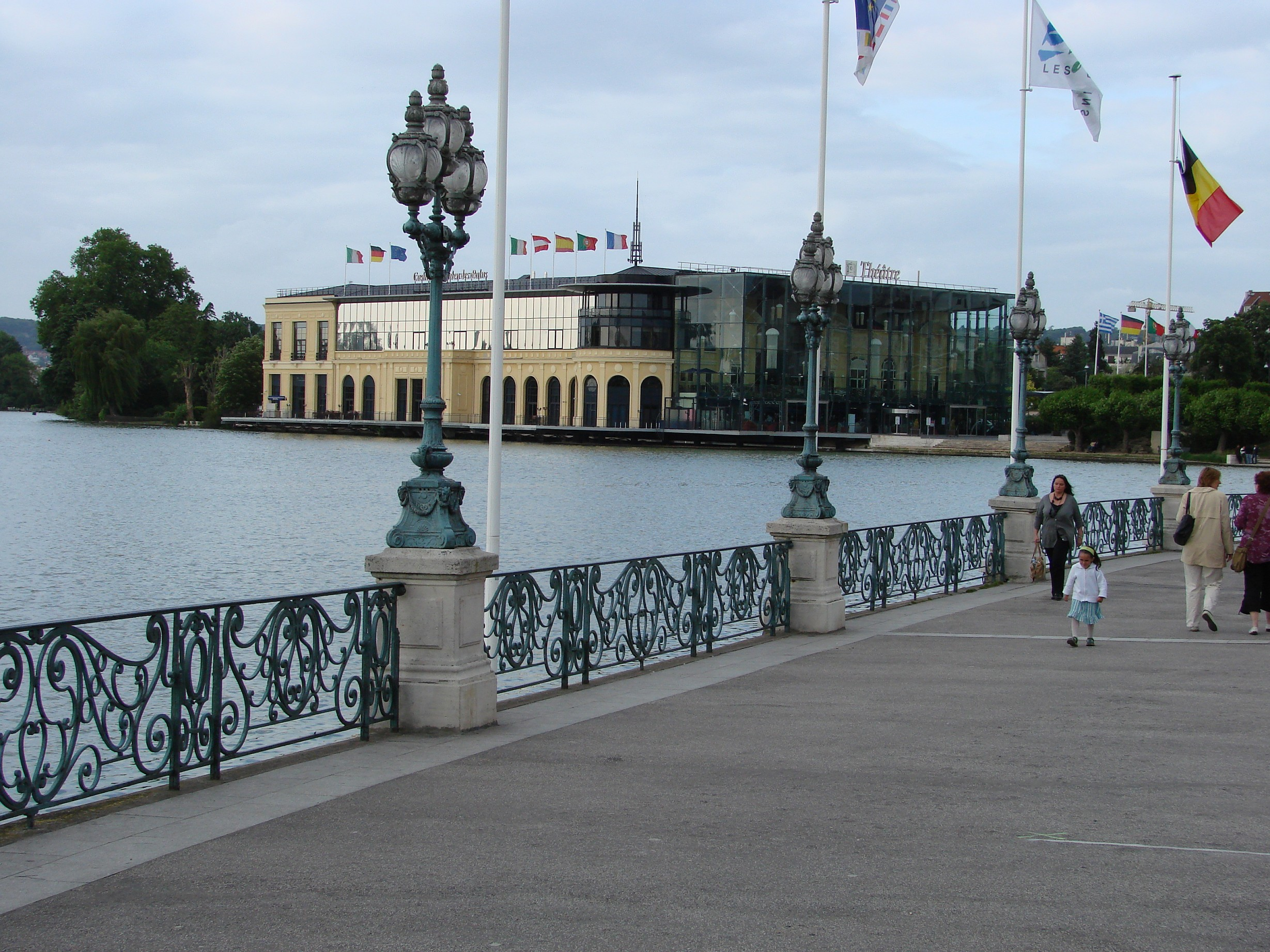 Quay and Casino in Enghien-les-Bains, France